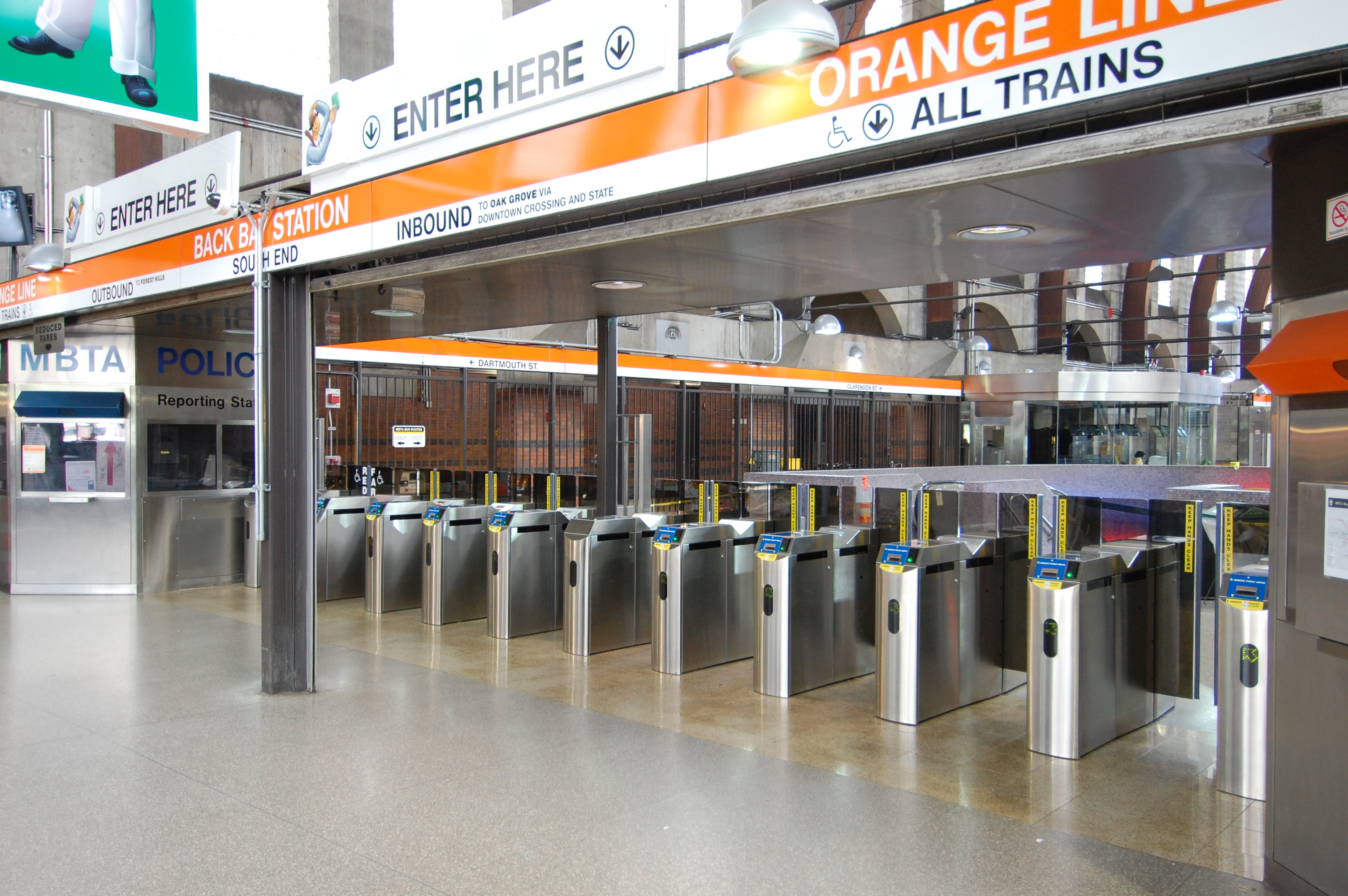 A row of new-style turnstiles, designed to be harder to jump, at Back Bay station